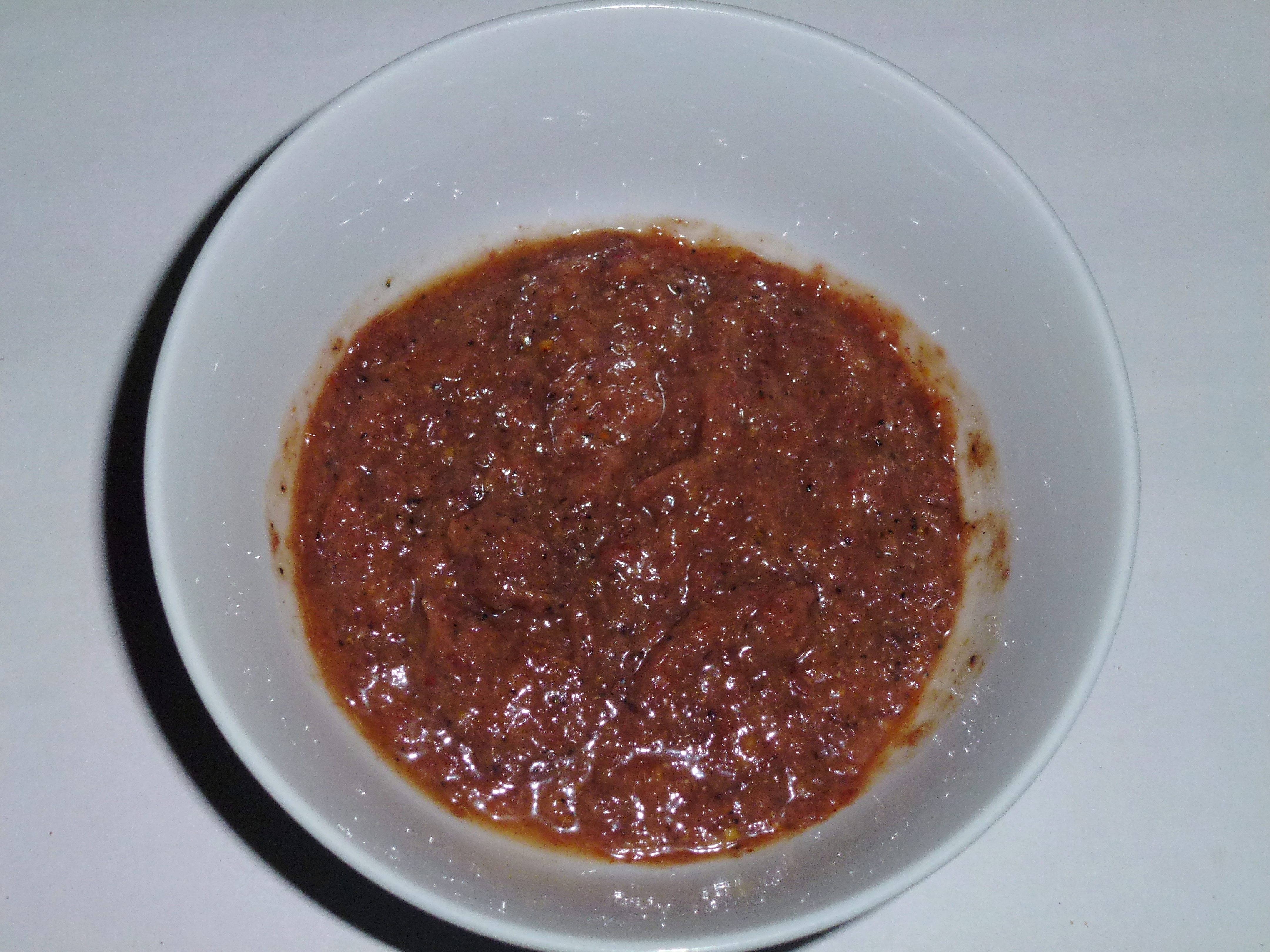 Acetes paste (shrimp paste) from Thanh Hoa province, VietnamTiếng Việt: Mắm chua Thanh Hóa